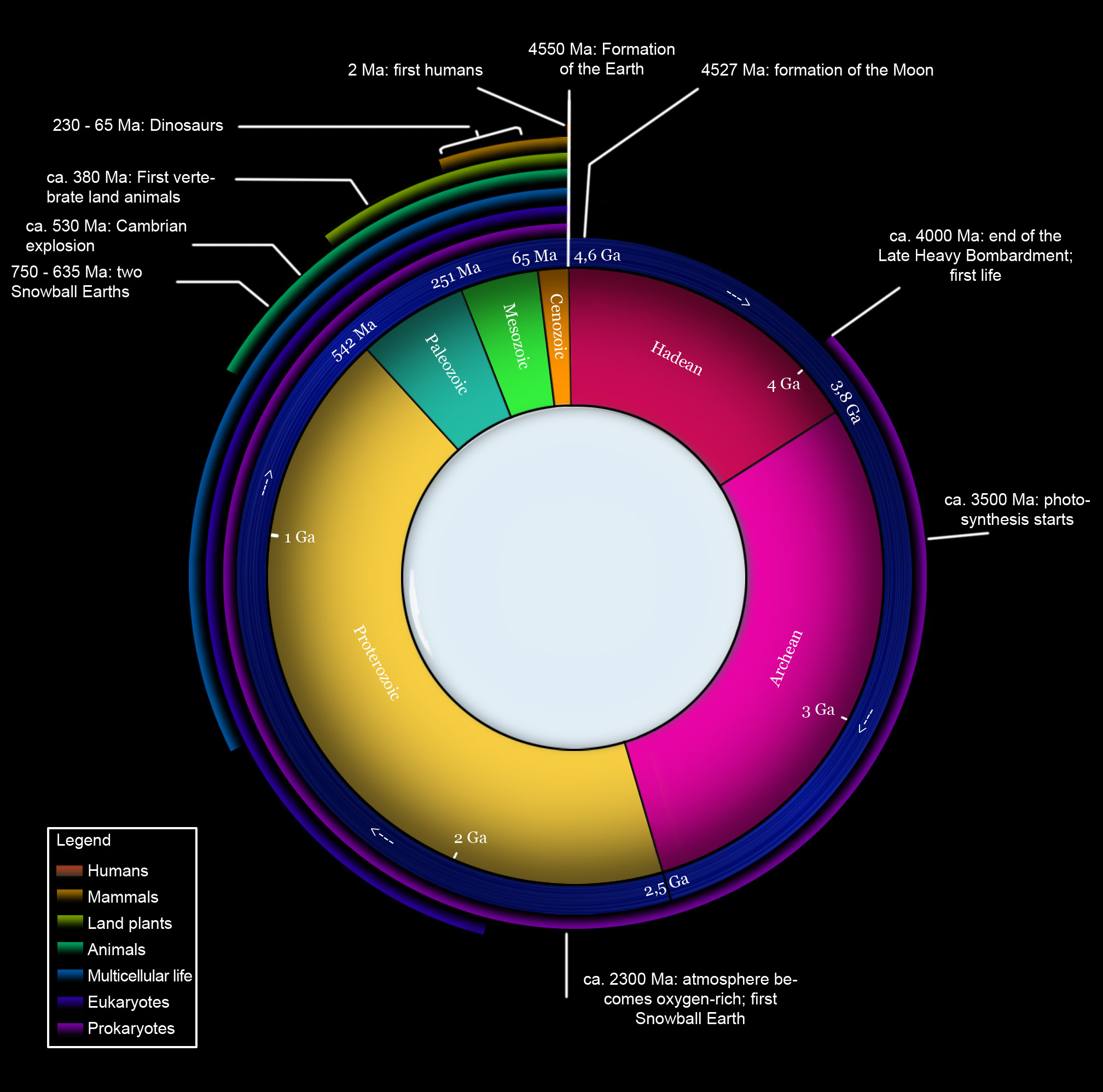 The geological clock: a projection of Earth's 4,5 Ga history on a clock ("MA" = a million years (Megayear) ago; "GA" = a billion years (Gigayear) ago)